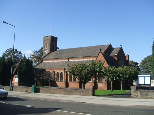 St Johns Church The church on the Walsall to Lichfield road was consecrated in 1837 and the chancel, vestry and aisles were added in 1886. In the last few years a new porch and rooms have been added.